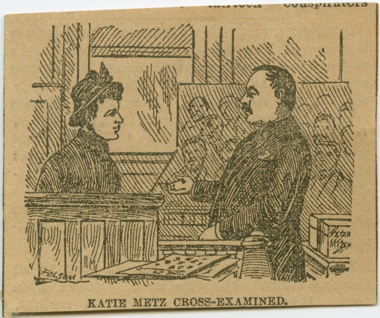 New York Times courtroom sketch of Katy Metz under cross examination during the trial of ex-Alderman Thomas Cleary